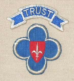 Photo of Trieste United States Troops (TRUST) shoulder sleeve insignia